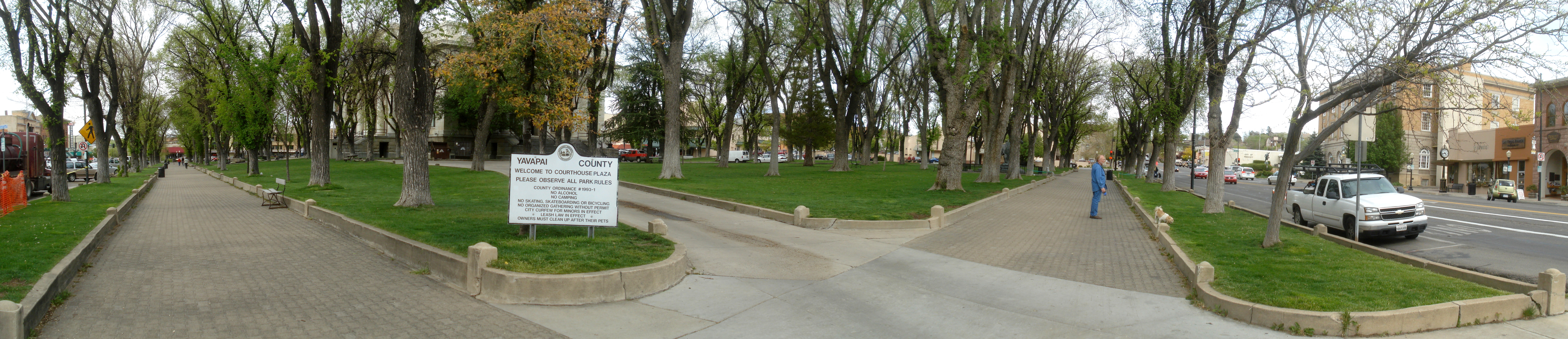 A panorama of the Courthouse square in downtown Prescott, Arizona. Created with Hugin. Courthouse Plaza Historic District